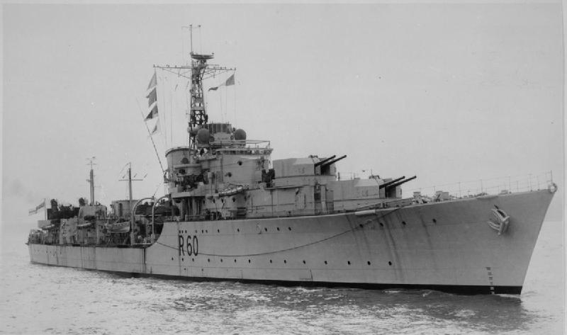 British destroyer HMS SLUYS underway on the Mersey.